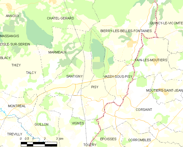 Map of French municipality Pisy